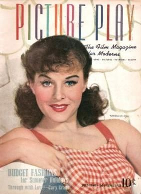 Paulette Goddard